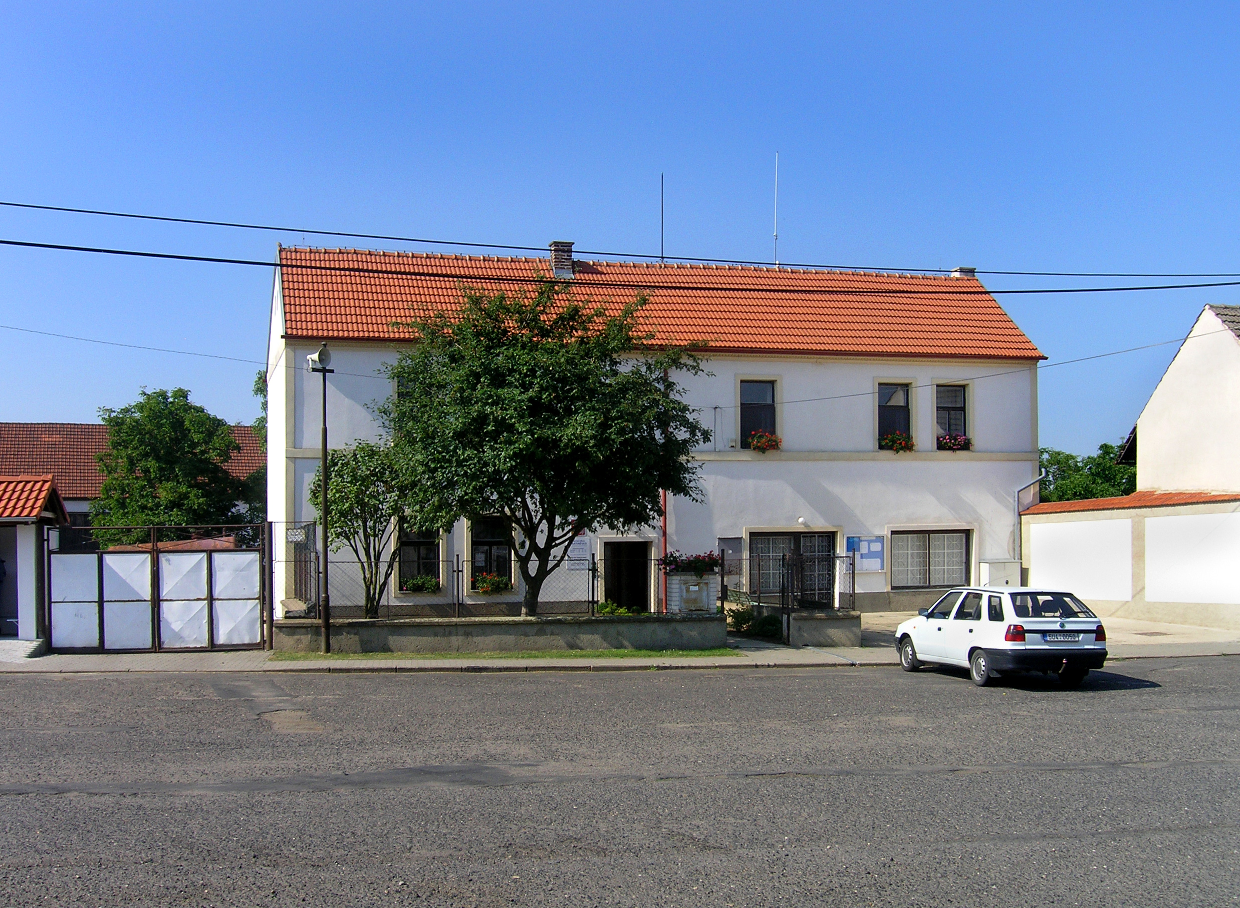 Municipal office of Martiněves, Czech Republic